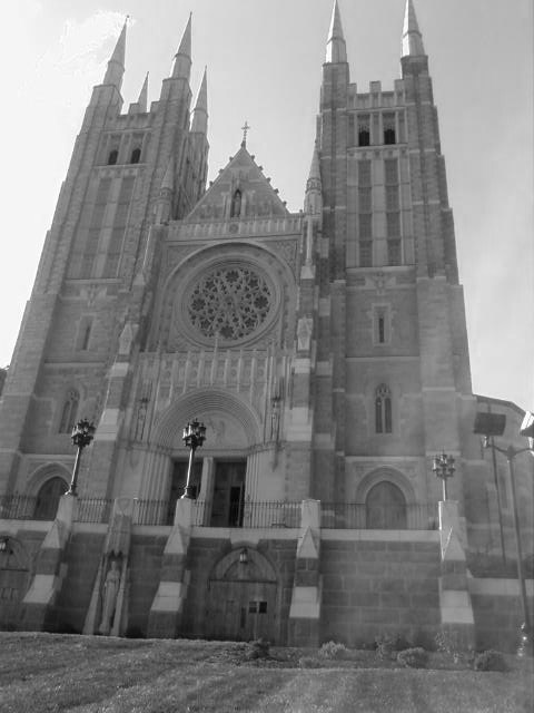 Front view of Basilica of Saints Peter and Paul, Lewiston.